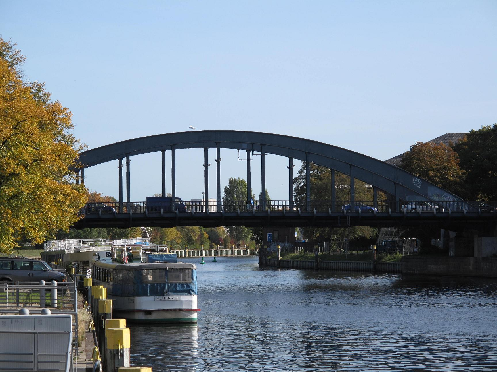 The Charlottenbrücke is a steel arch bridge in Berlin-Spandau crossing the Havel. The listed bridge is a part of the Charlotten- and Stresowstraße and situated at the eastside of Spandau's Altstadt (old town). It was built between 1926 and 1929 and replaced the old bridge dating from 1886.